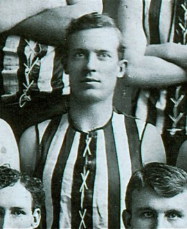 Photograph of Oscar Hyman in 1906